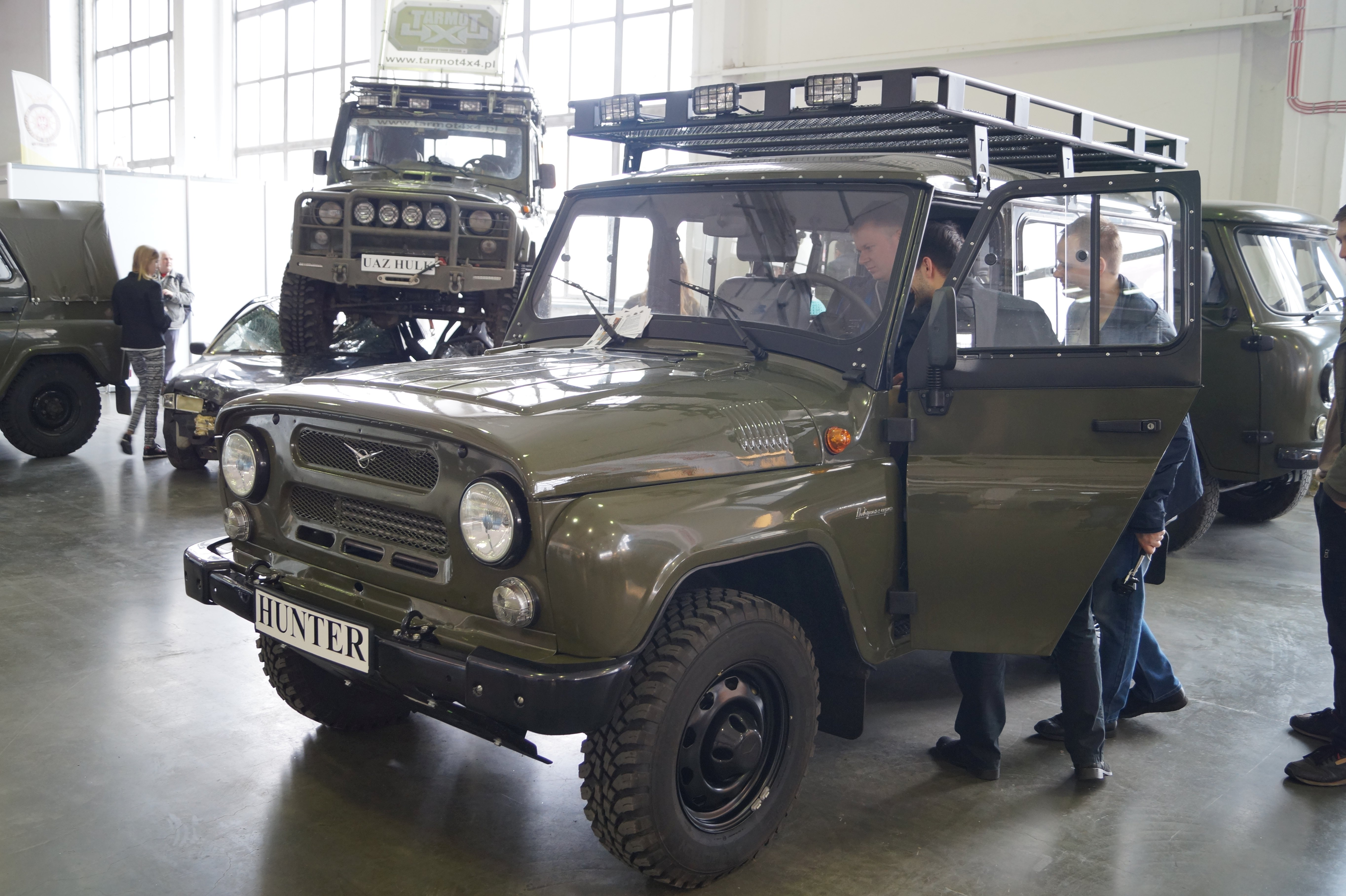 The making of this document was supported by Wikimedia Polska Association, within Wikigrant no. WG 2016-10. UAZ Hunter na Motor Show Poznań 2016